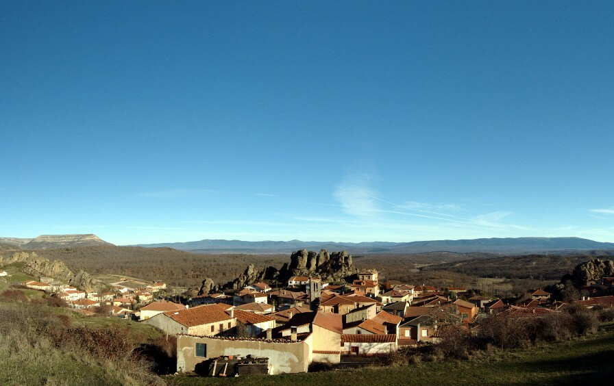 Panoramic view of Pinilla de los Barruecos, Burgos, Spain.